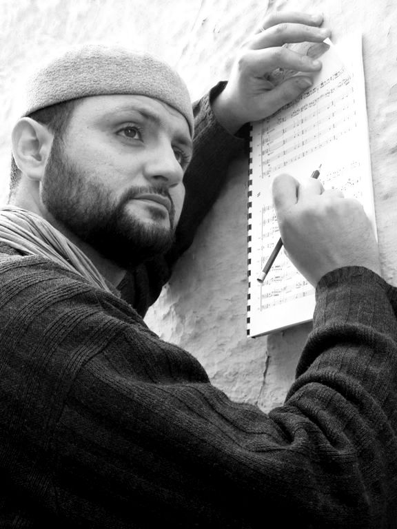 Portrait of Salim DADA.